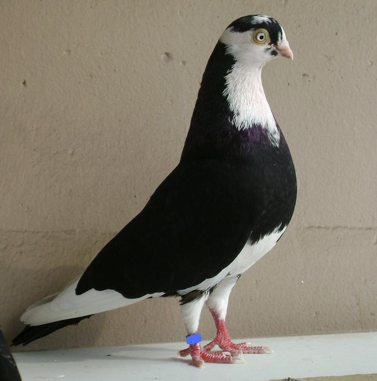 Galati Roller Pigeon - Cock